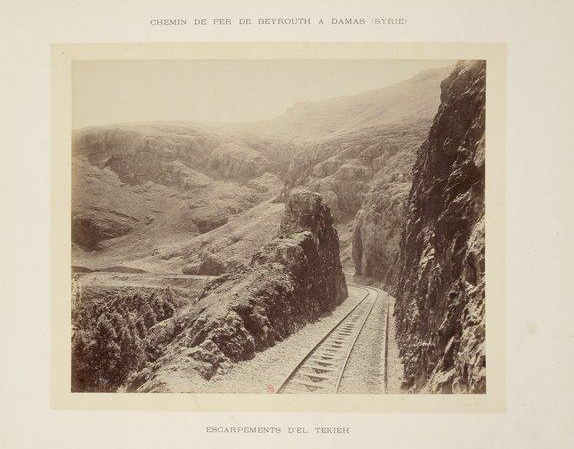 Escarpements d'el Tekieh